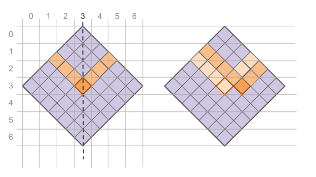 An illustration showing an easy way to map from screen to world coordinates on an isometric projection